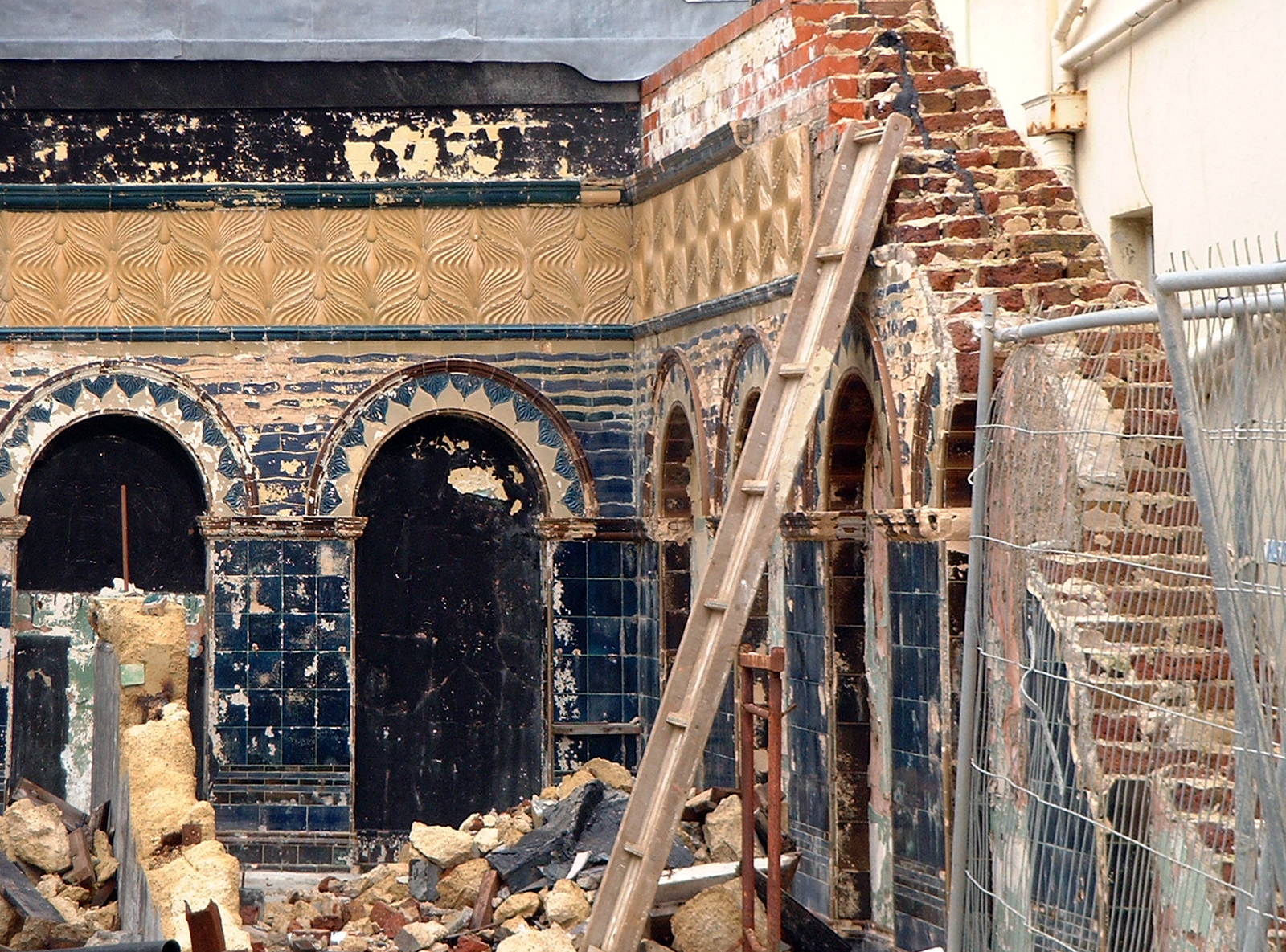 Detail of part of the site of Medina House Turkish Baths, Hove, England.